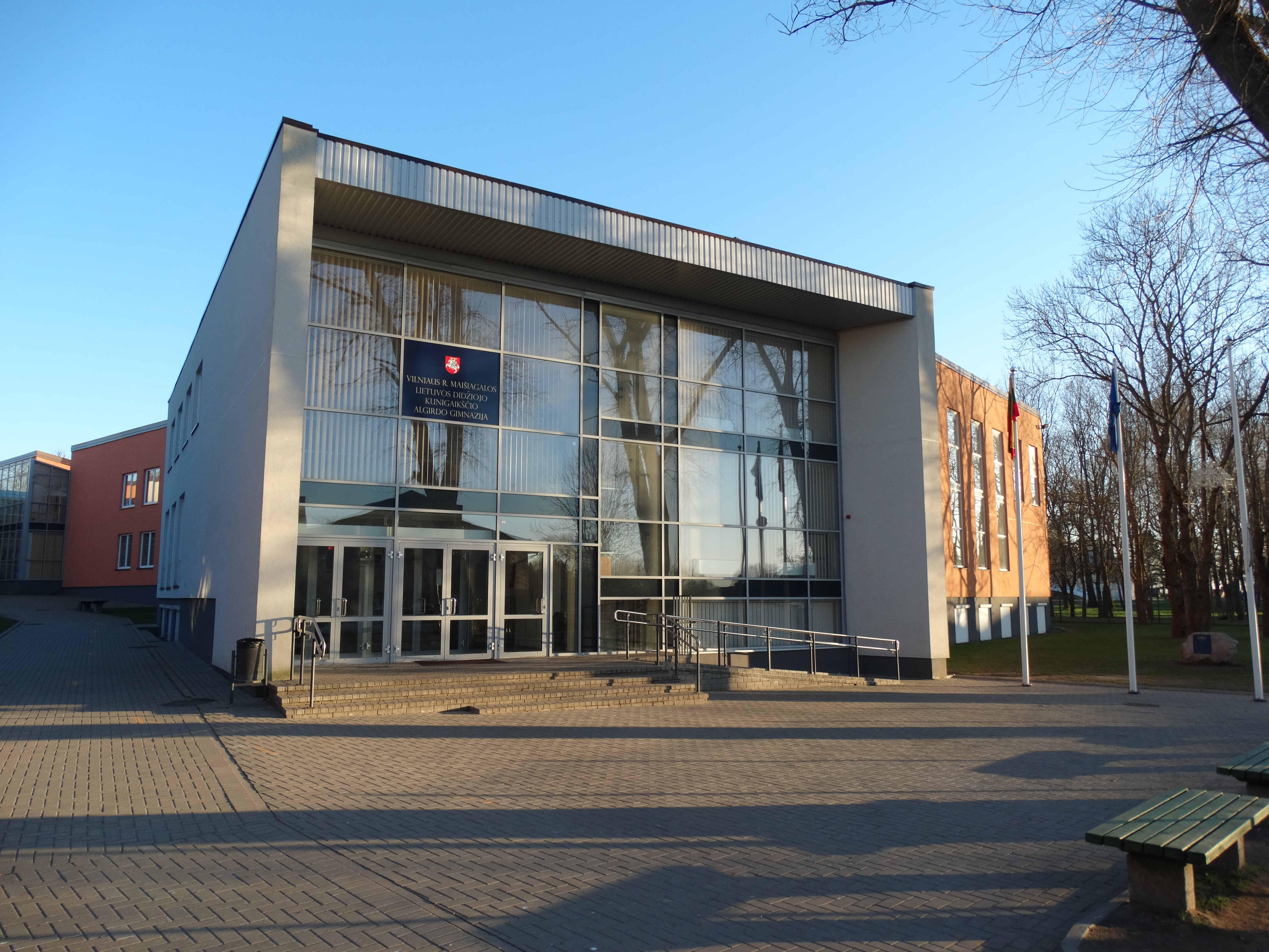 Grand Duke Algirdas Gymnasium, Maišiagala, Vilnius district, Lithuania